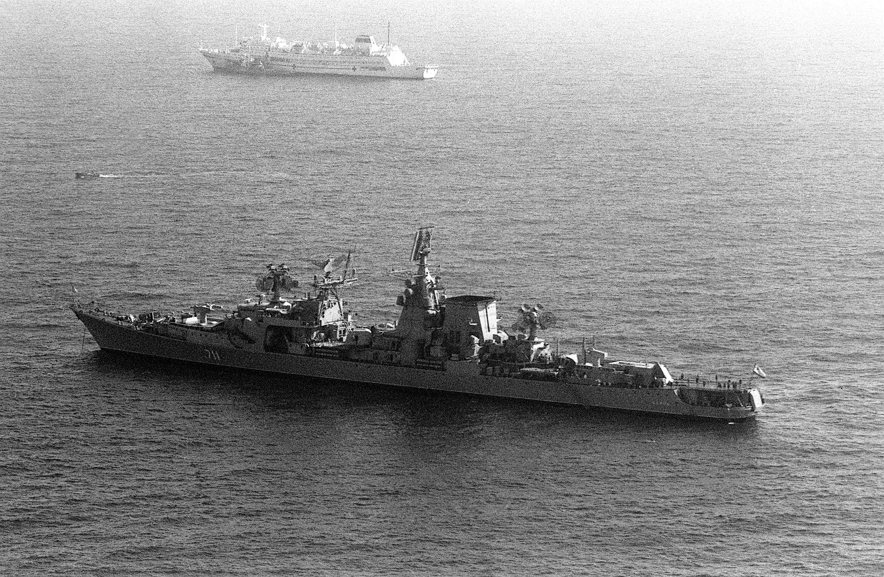 A port view of the Soviet Kara class guided missile cruiser KERCH at anchor, foreground, and the Soviet Ob hospital ship YENISEI in the background. The Okhtensky class rescue tug SB-15 is alongside the YENISEI.